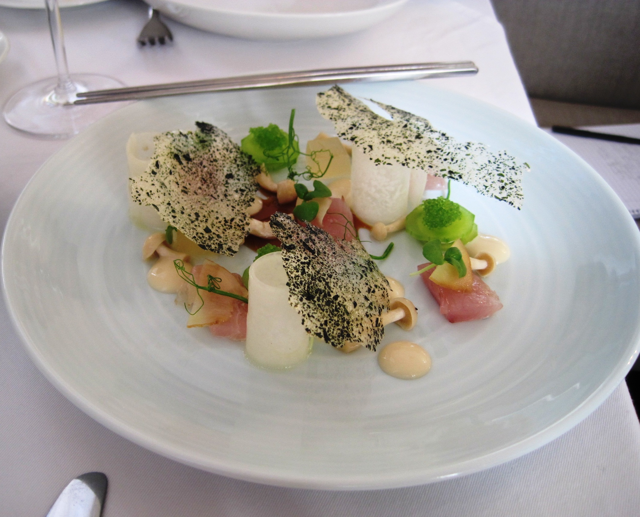 Catit 2011 1